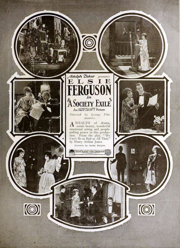 Ad for the American film A Society Exile (1919) with Elsie Ferguson, page 1335 of the August 16, 1919 Motion Picture News.